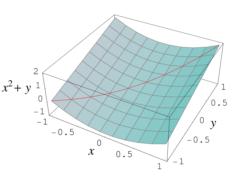 Illustration of the dependece problem while evaluation x²+x using interval techniques.